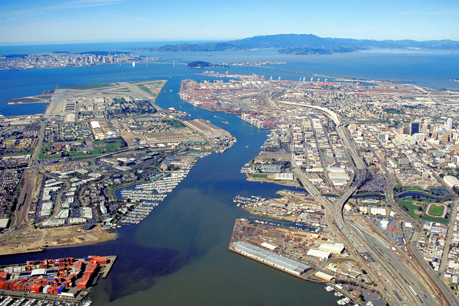 Aerial view of the port of Oakland, California, USA. The city of San Francisco is clearly visible at top left. The Bay Bridge runs across the the top of the picture, and the Golden Gate Bridge can be seen. The runways of the former Alameda Naval Air Station can be seen at left. Downtown Oakland appears at the far right. View is to the west-northwest. Coordinates: 37°47′43.92″N 122°17′4.57″W / 37.7955333°N 122.2846028°W